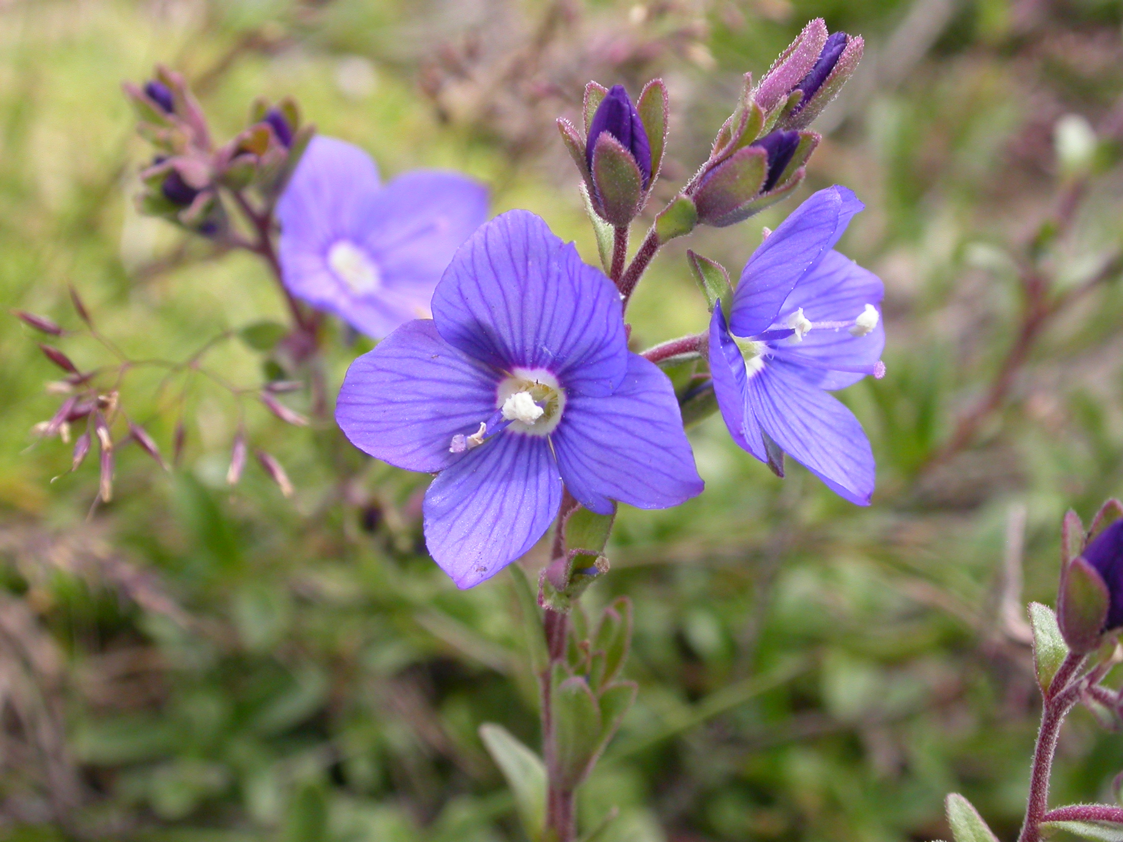 Veronica fruticans Zermatt, Riffelberg (Kanton Wallis, Switzerland), 2500 m Author: Barbara Studer – own photograph Date: 2.08.06